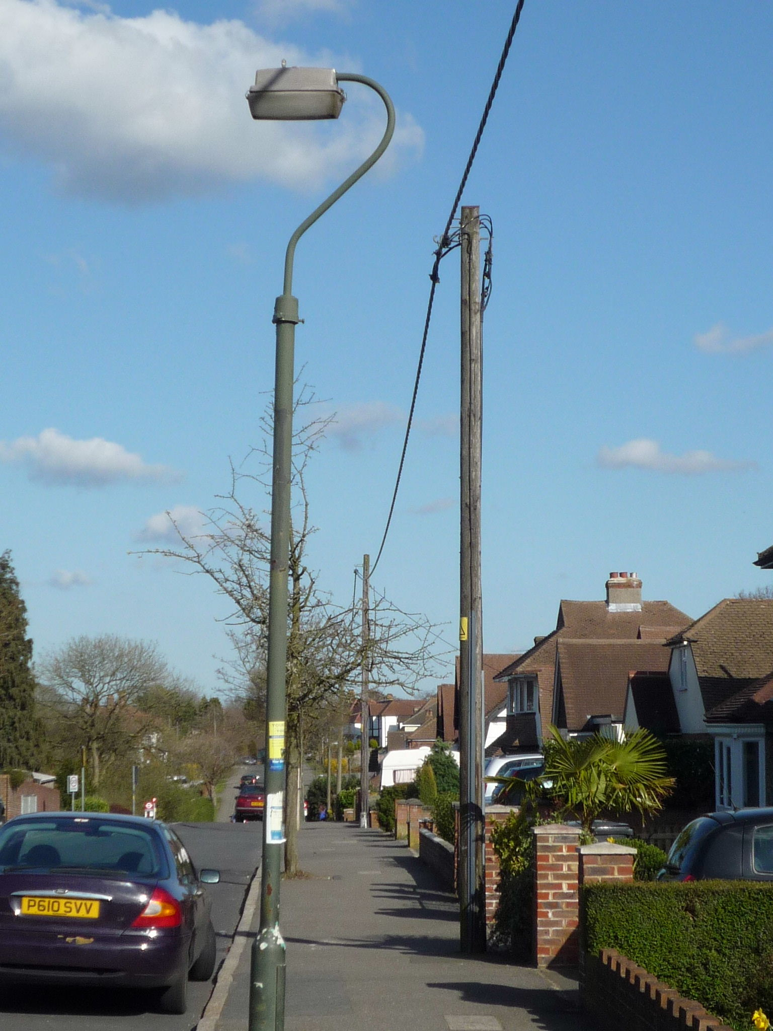 Another pole nearby An aerial bundled cable (ABC) seen at Keston Avenue, Old Coulsdon, London Borough of Croydon. On the nearer pole, the conductors are brought down the pole and then run underground to the houses supplied.